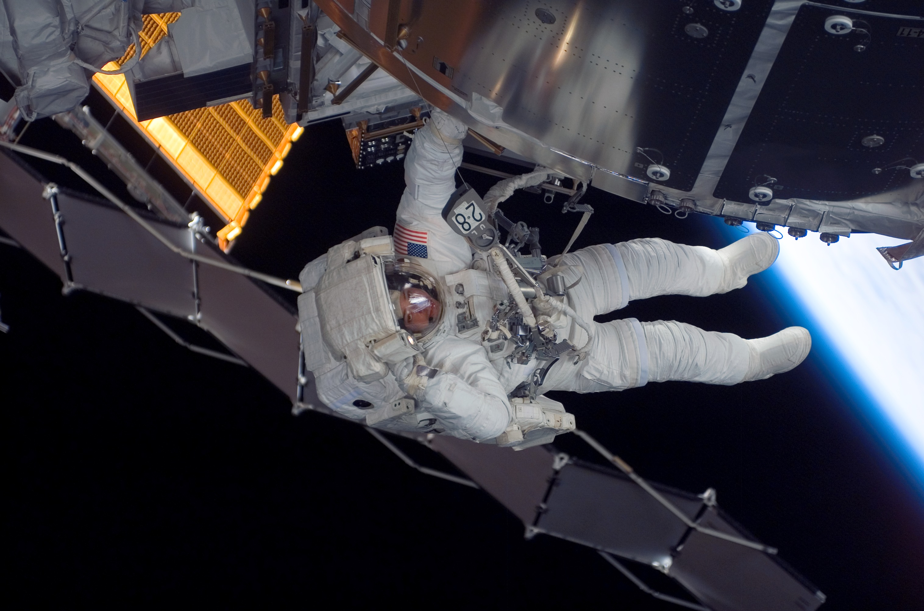 Astronaut Robert L. Behnken, STS-123 mission specialist, participates in the mission's third scheduled session of extravehicular activity (EVA) as construction and maintenance continue on the International Space Station. During the 6-hour, 53-minute spacewalk, Behnken and Rick Linnehan (out of frame), mission specialist, installed a spare-parts platform and tool-handling assembly for Dextre, also known as the Special Purpose Dextrous Manipulator (SPDM). Among other tasks, they also checked out and calibrated Dextre's end effector and attached critical spare parts to an external stowage platform. The new robotic system is scheduled to be activated on a power and data grapple fixture located on the Destiny laboratory on flight day nine. The blackness of space and Earth's horizon provide the backdrop for the scene.